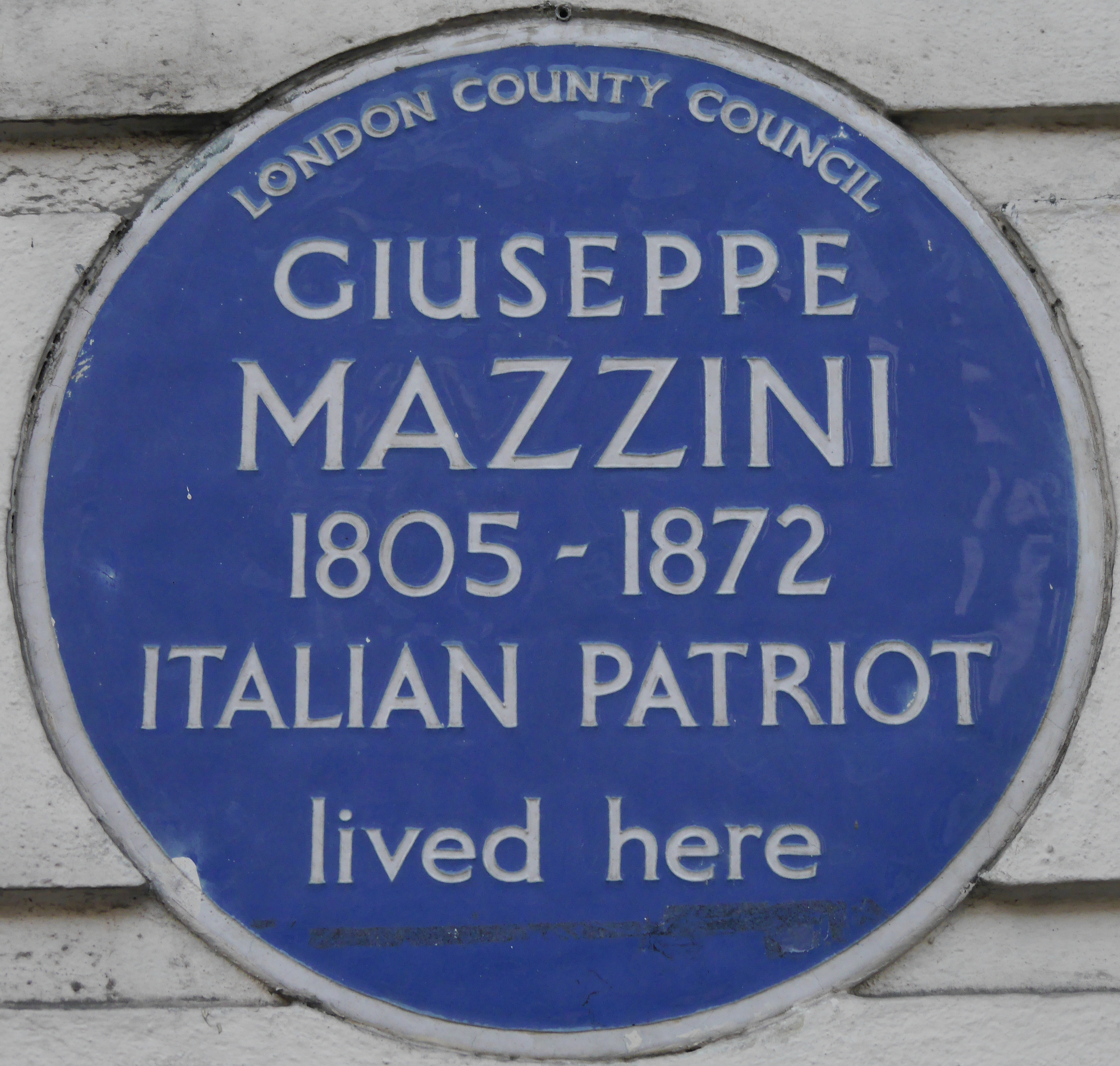 Giuseppe Mazzini 183 Gower Street blue plaque